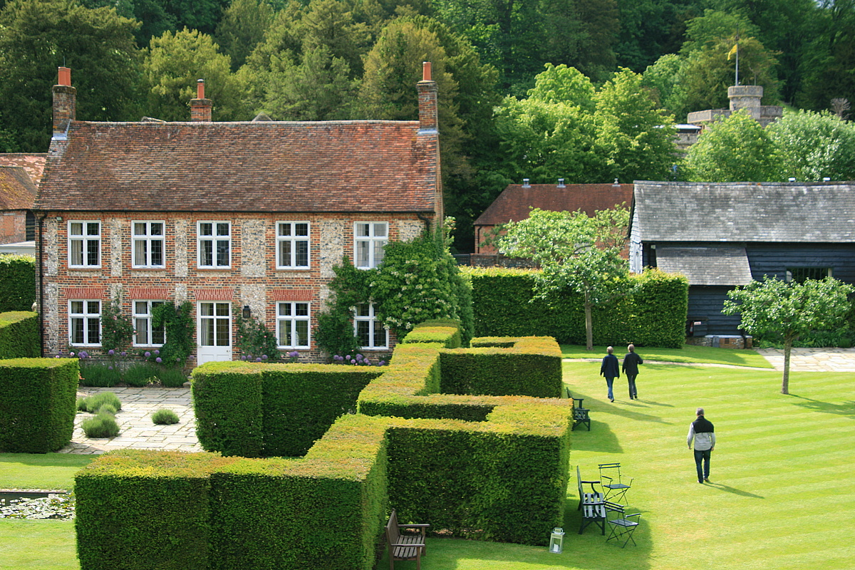 The Estate Office, Wormsley